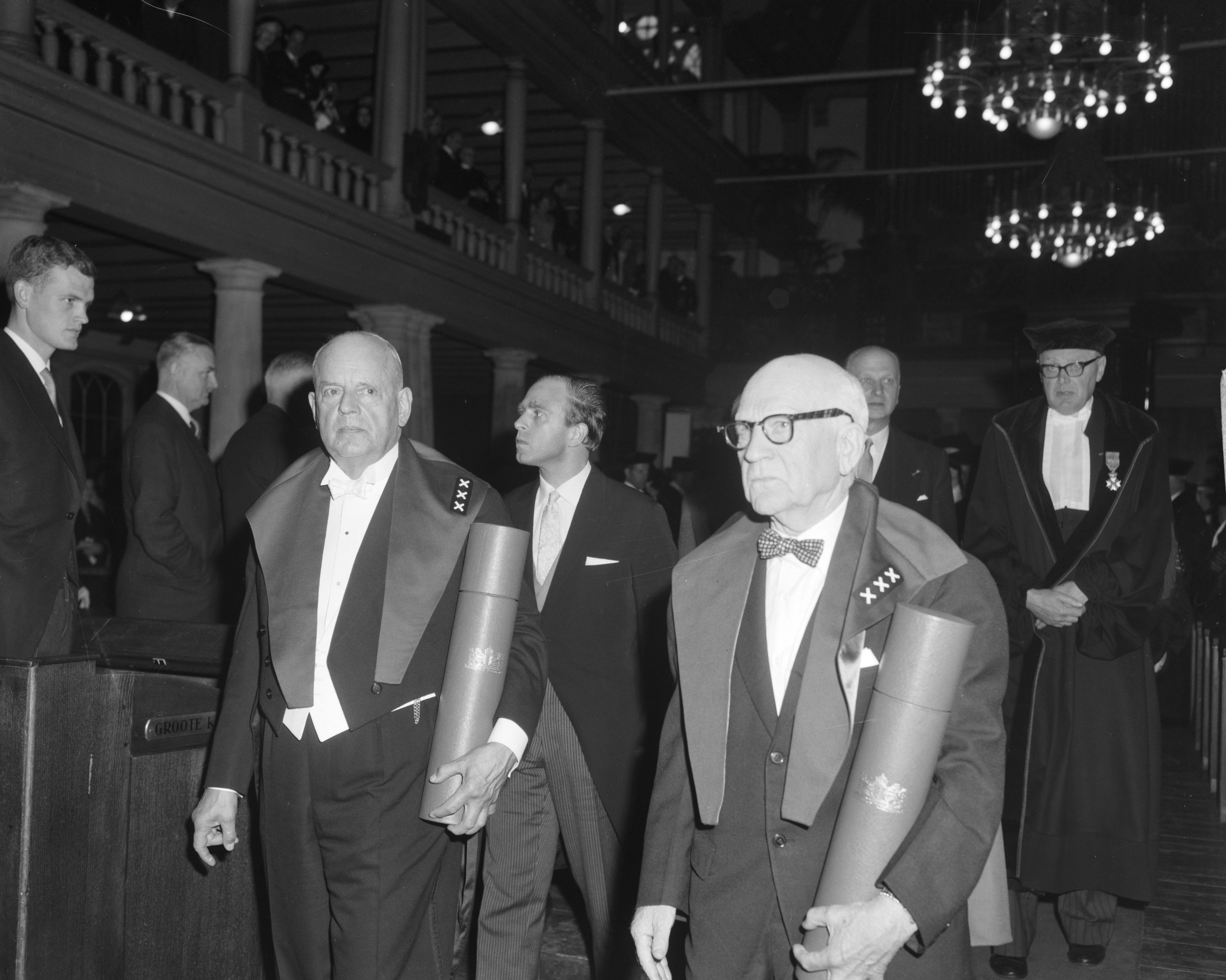 Ernst Crone and Donald D. Van Slyke (right) walking back from the ceremony in which they received an honorary doctorate of Amsterdam University, 28 May 1962.